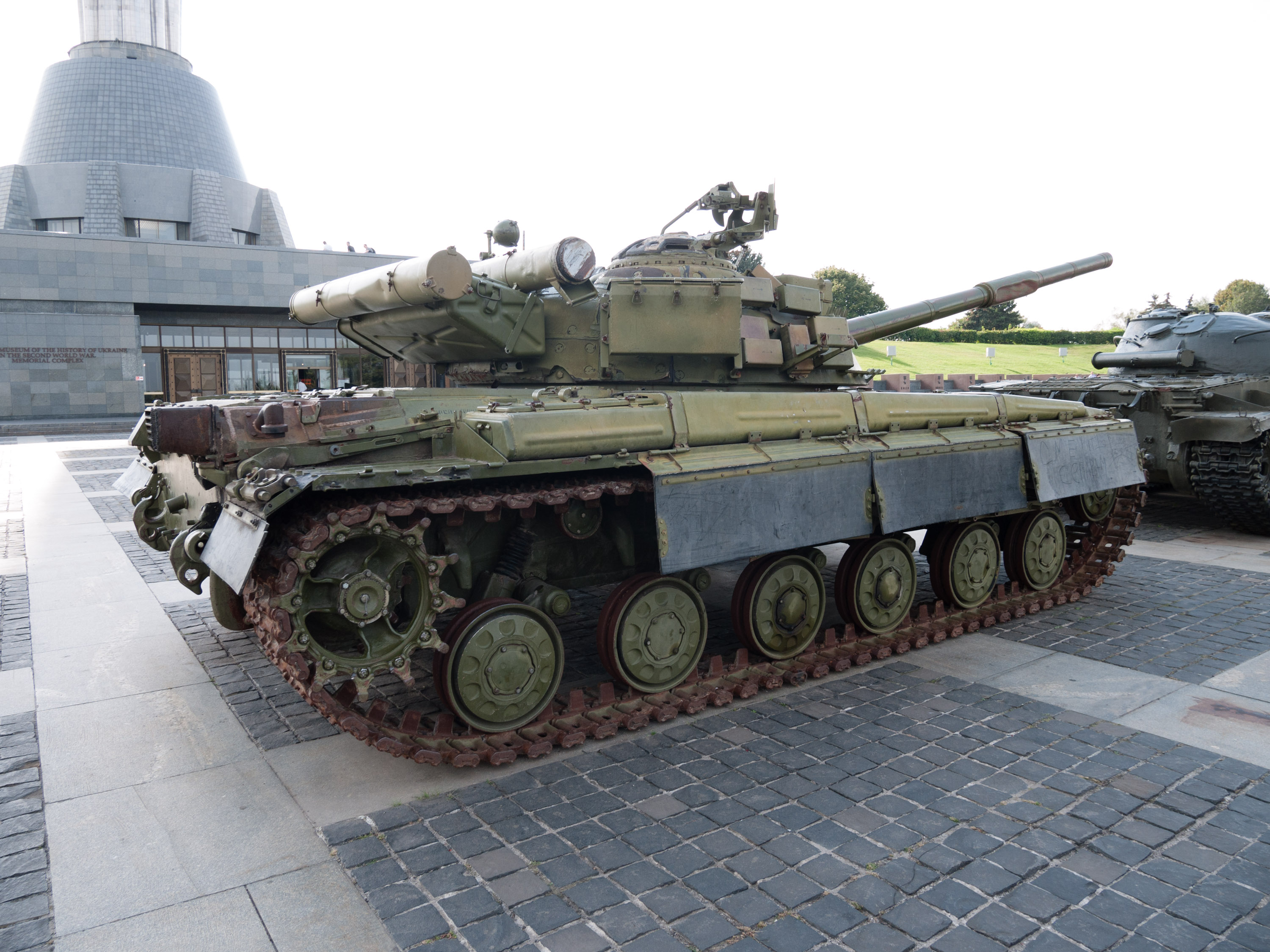 T-64BV (searchlight-number 6) side view